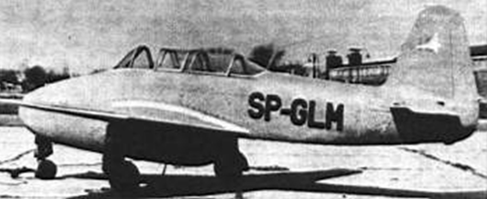 The civil Yak-17UTI (Yak-17W) "SP-GLM" in Institute of Aviation (Poland)